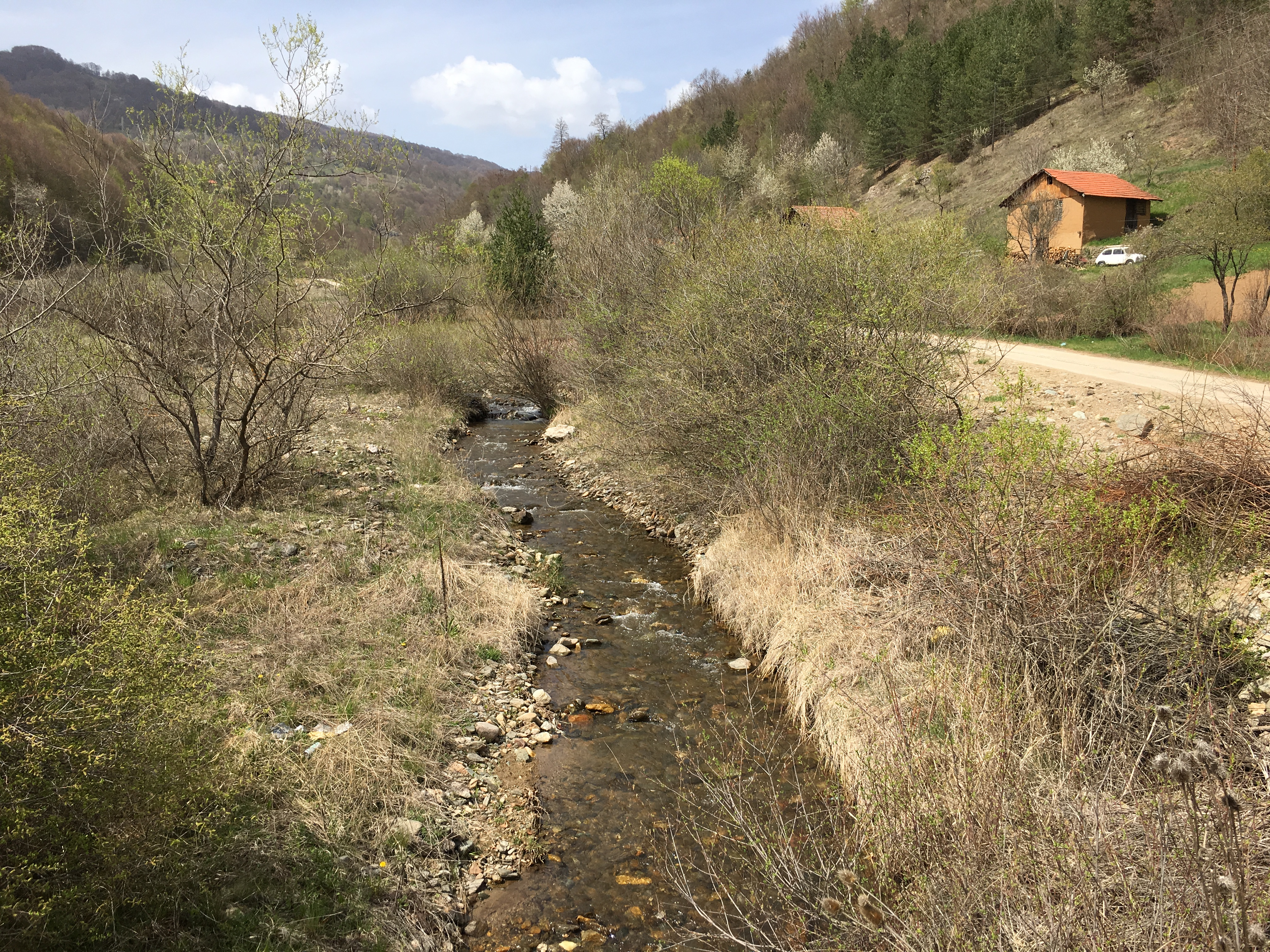 Lučka River through the village of Luke